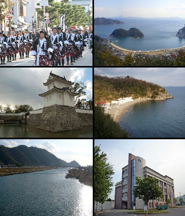 Ako montage